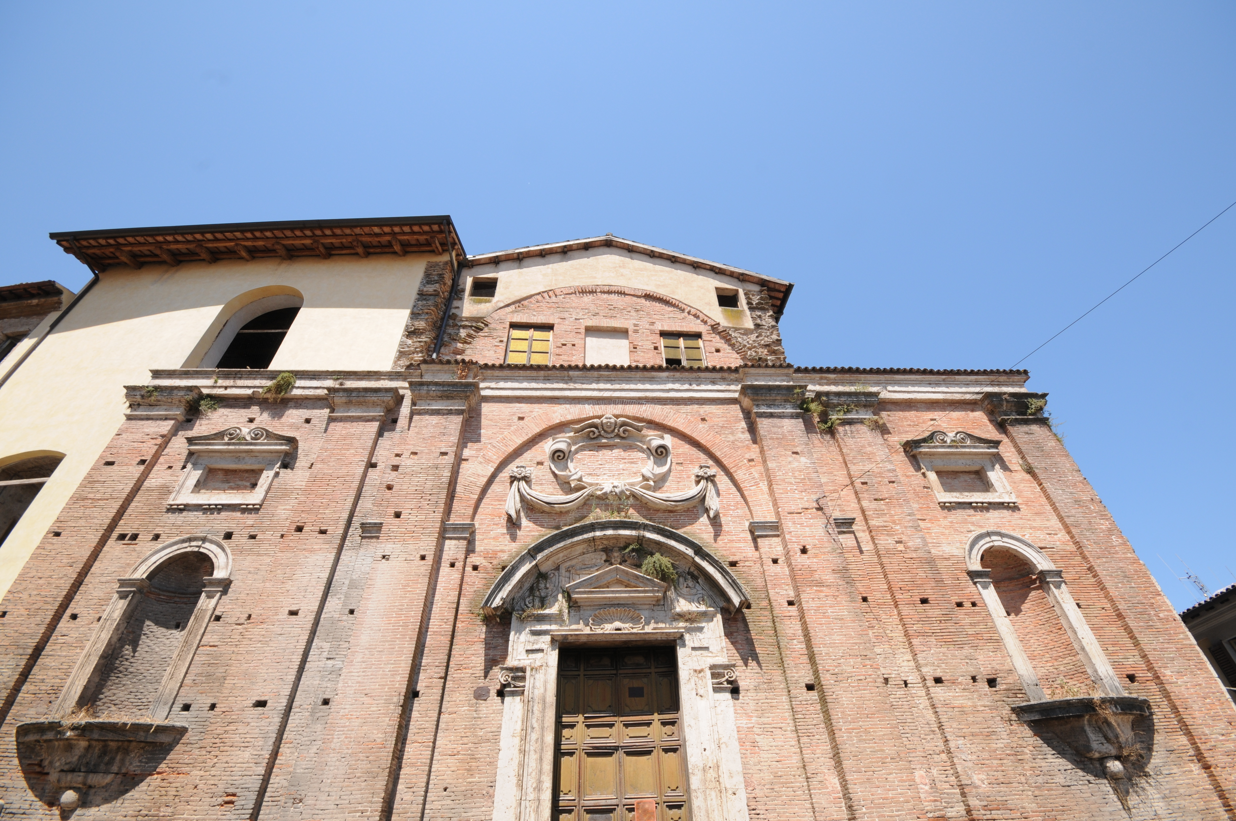 Church of St. Anthony the abbot - Rieti (Lazio)